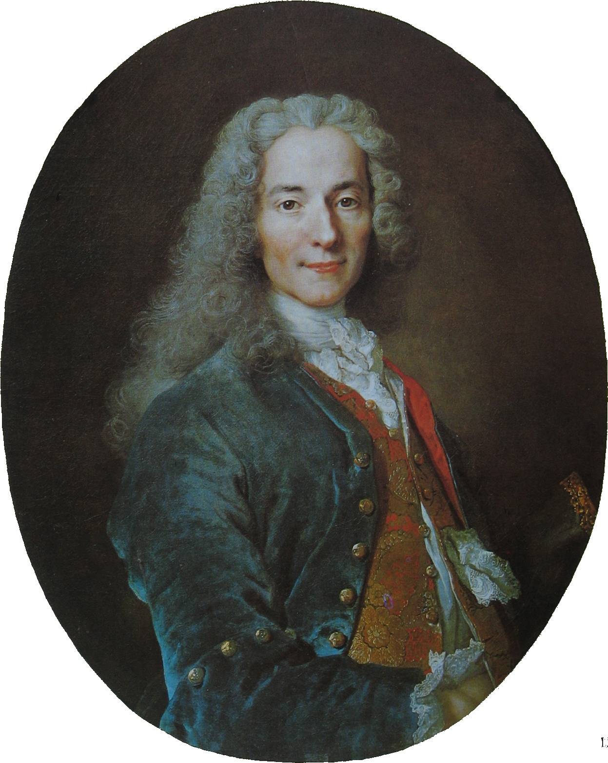 Depicted person: François-Marie Arouet (1694–1778), known as Voltaire, French Enlightenment writer and philosopher